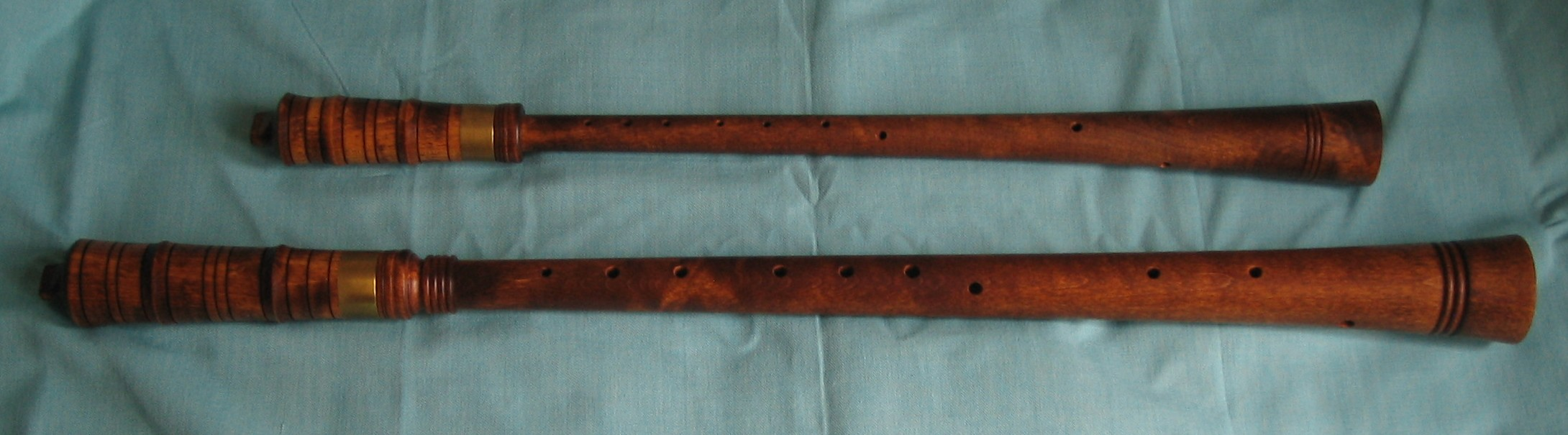 Sopranino (shorter) and soprano (longer) rauschpfeifes. Photograph taken by Mattmm on 7 May 2006.